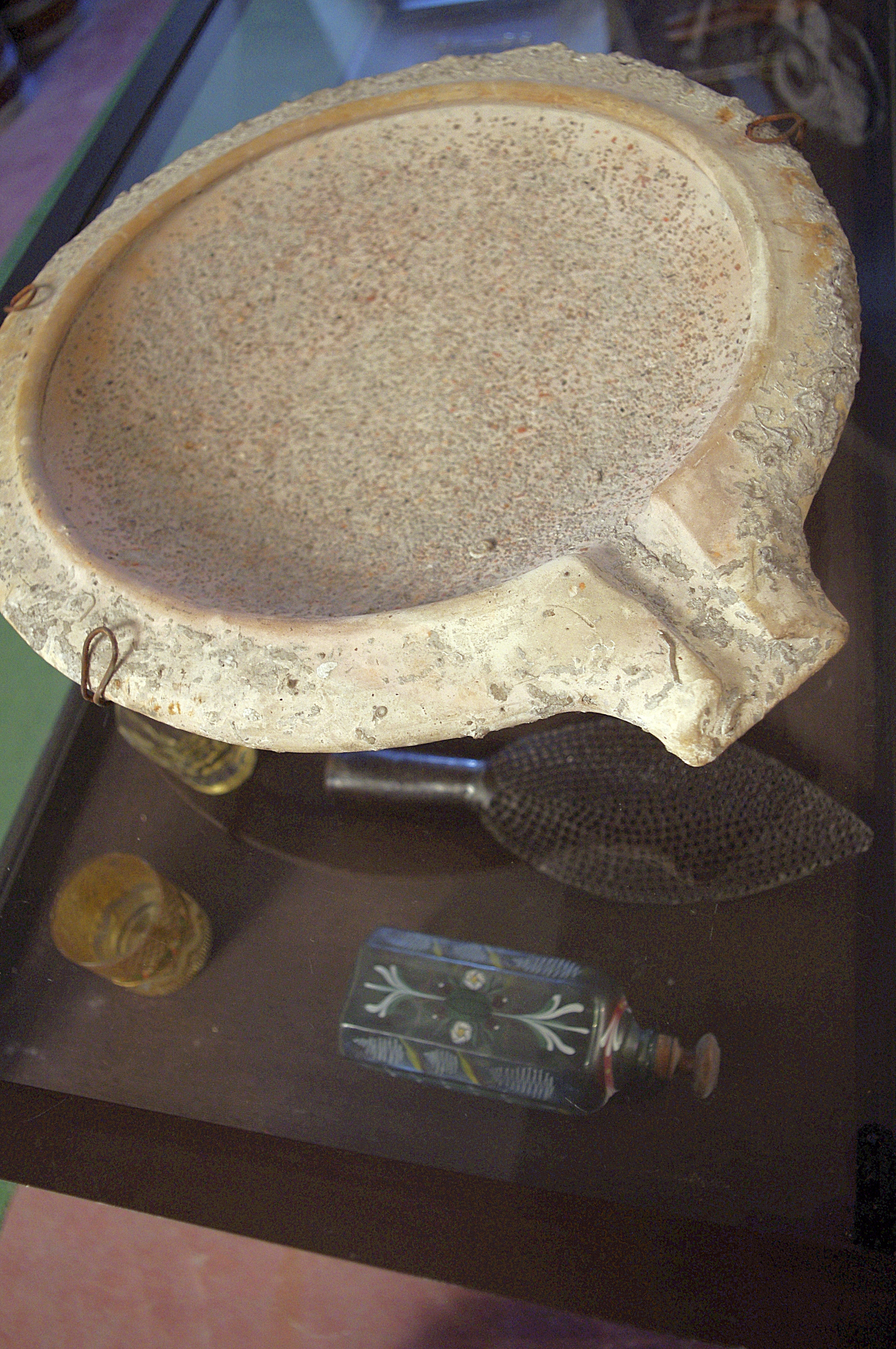 Roman cream separator from the II. century. Musée de la Gourmandise, Hermalle sous Huy, Belgium